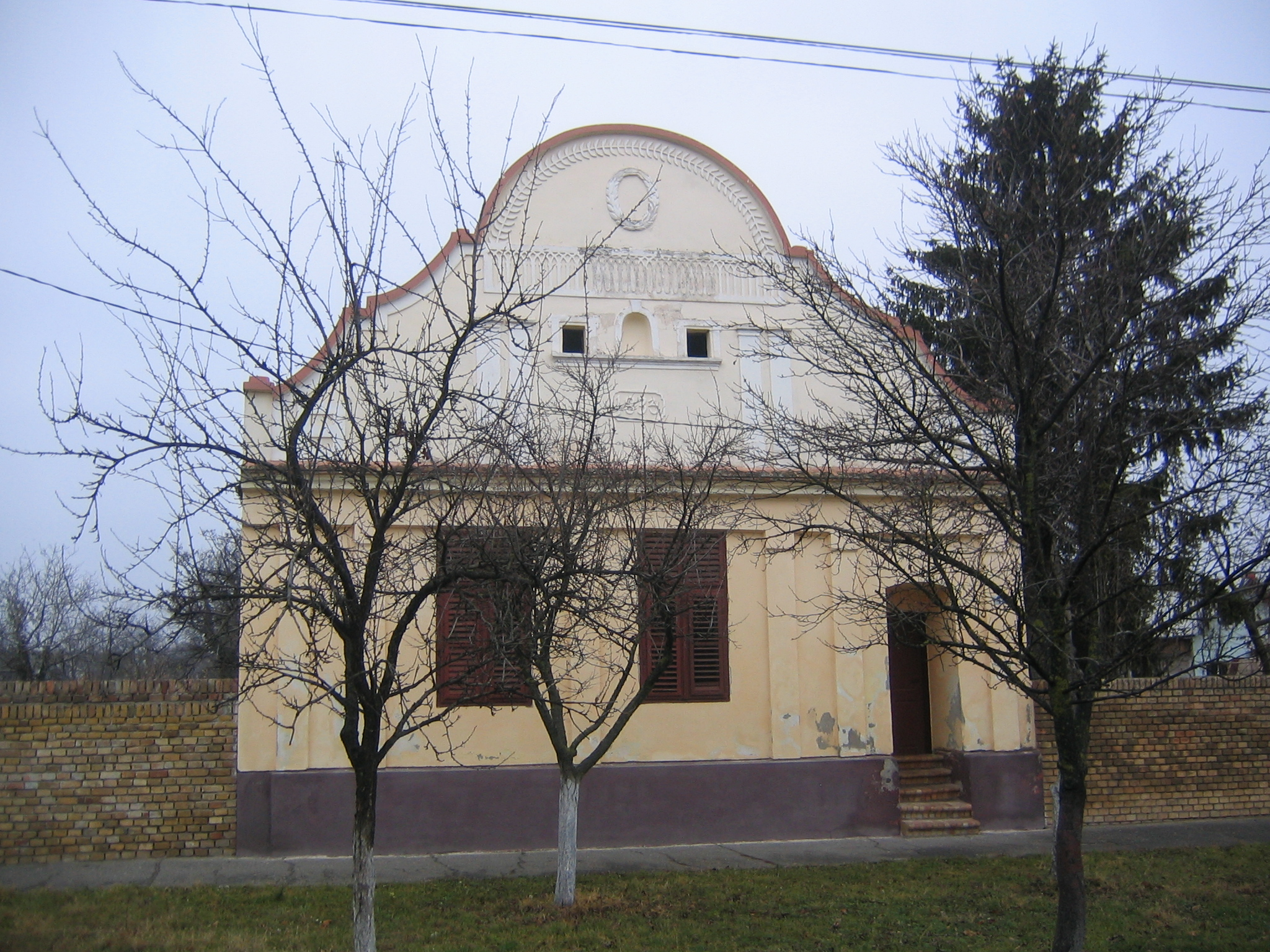 Swabian House, (Dr. Karl Diel House), Dr. Karl Diel St. no. 4, Jimbolia, built 19th century